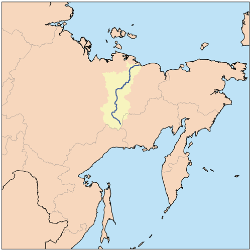 This is a map of the Indigirka River Watershed, based on USGS data.